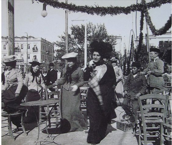 Athens, Syntagma Square 1905